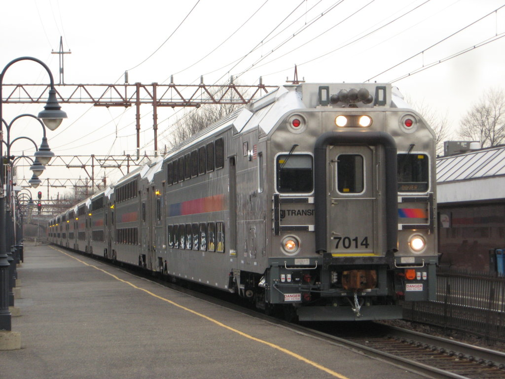 NJ Transit Multilevel train 6651, led by #7014, stops at the Millburn Station. All vehicles on this train are manufactured by Bombardier